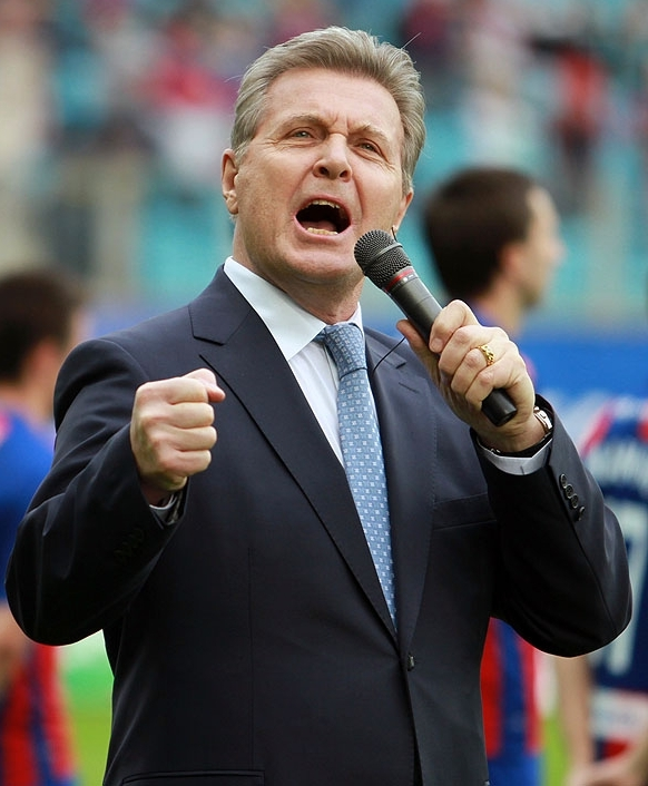 Lev Leshchenko singing